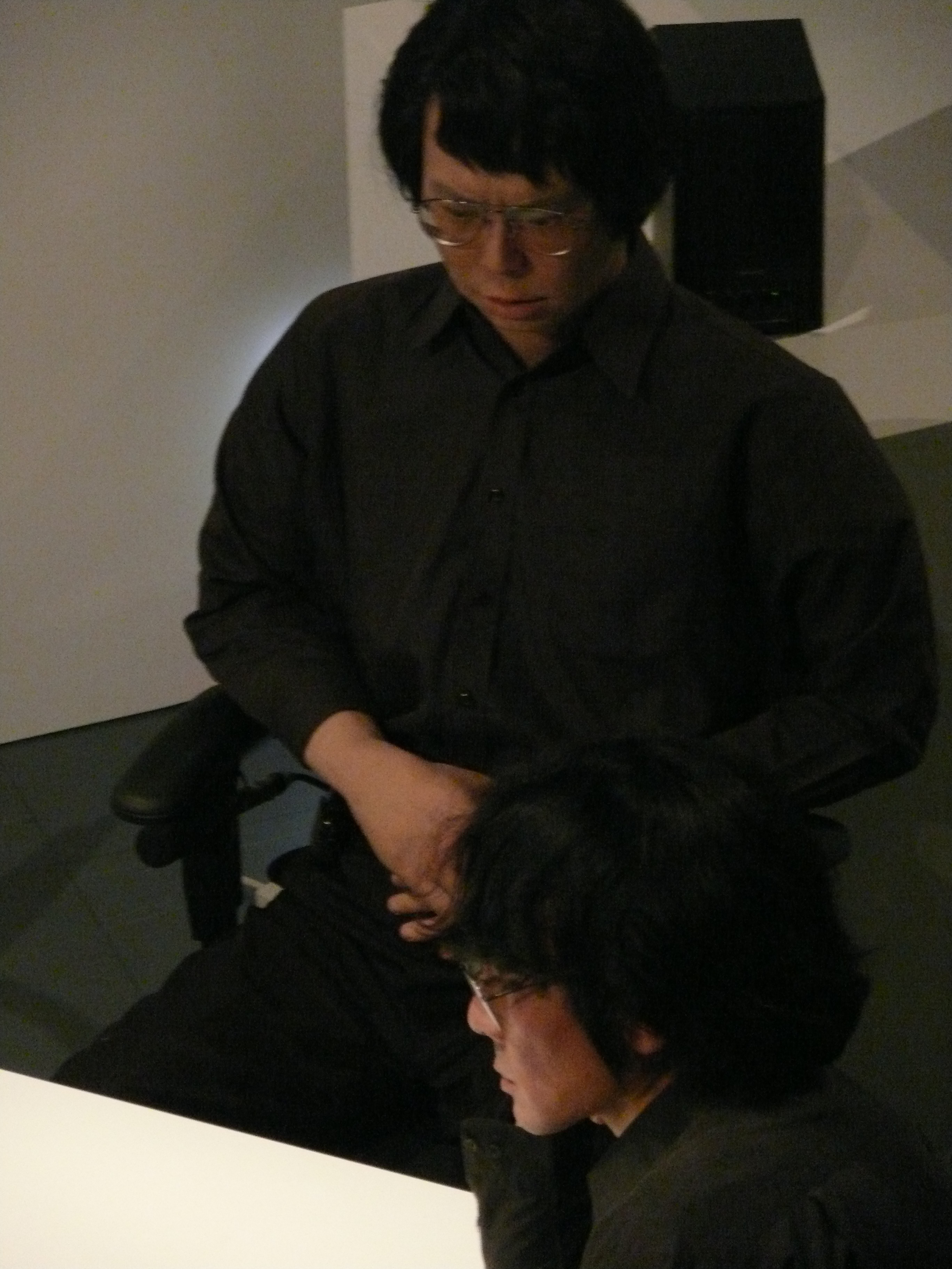 Hiroshi Ishiguro and Geminoid HI-1 at Ars Electronica Center. Opening of Ars Electronica Festival 2009, Sept. 3rd, 2009.